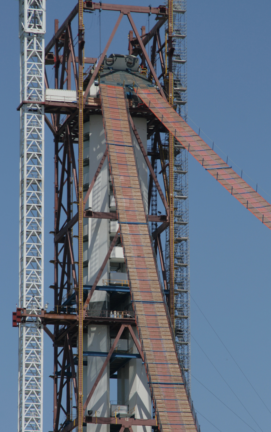 Western catwalks will be used to enable worker access during the spinning of the main cables of the SFOBB replacement eastern span.